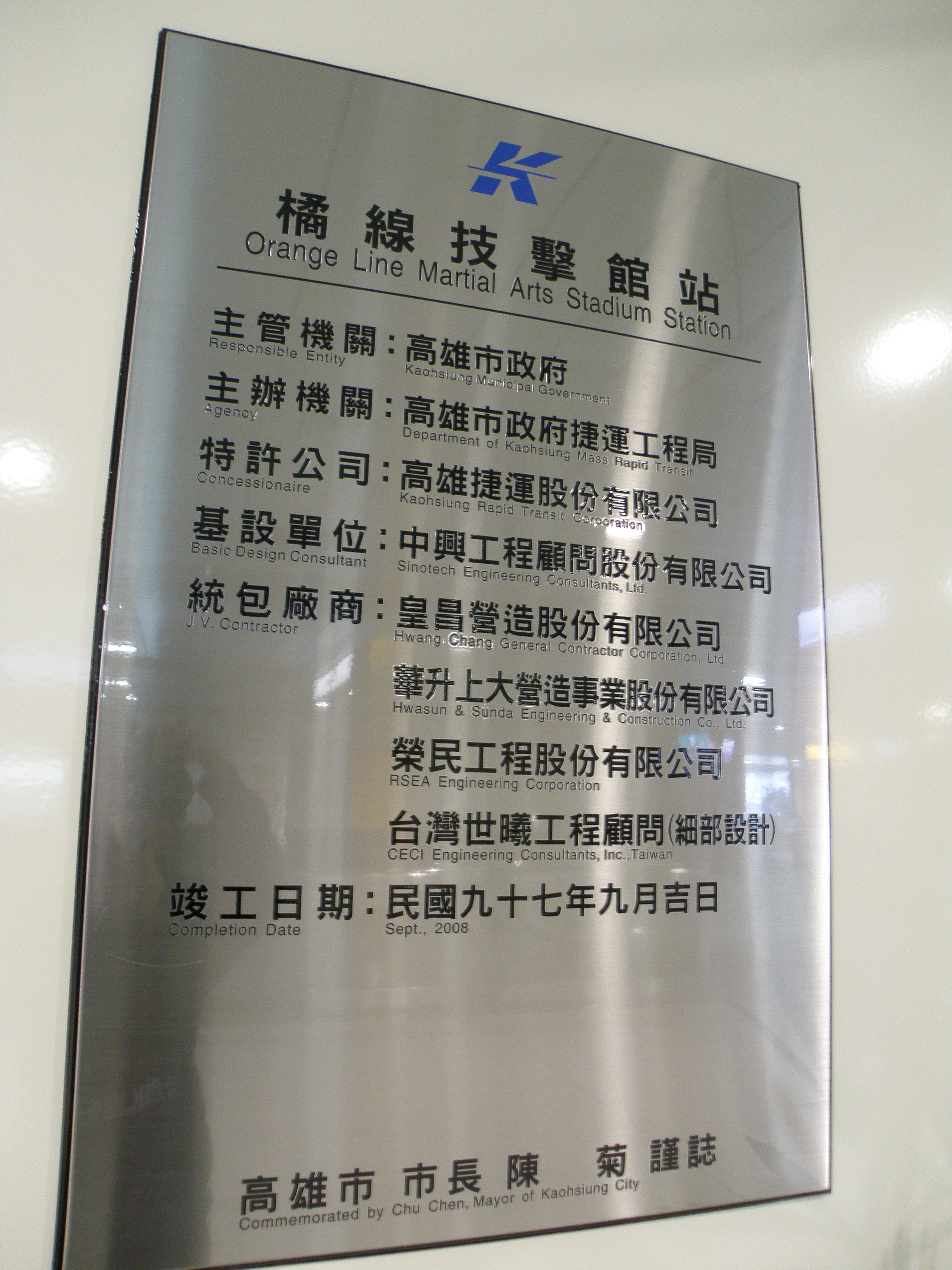 Inauguration Tablet of Martial Arts Stadium Station, Kaohsiung Mass Rapid Transit.